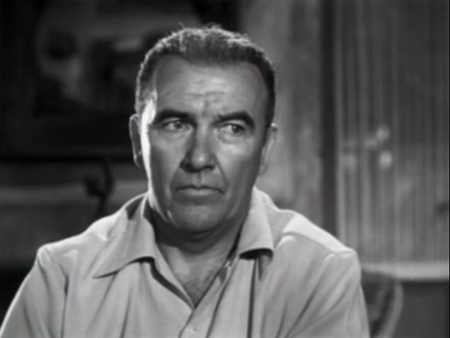 Preston Foster as Tim Foster in Kansas City Confidential